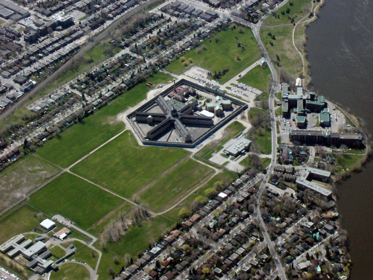 Aerial photograph of the Prison de Bordeaux (Établissement de détention de Montréal) in northern Montréal, Québec, Canada.